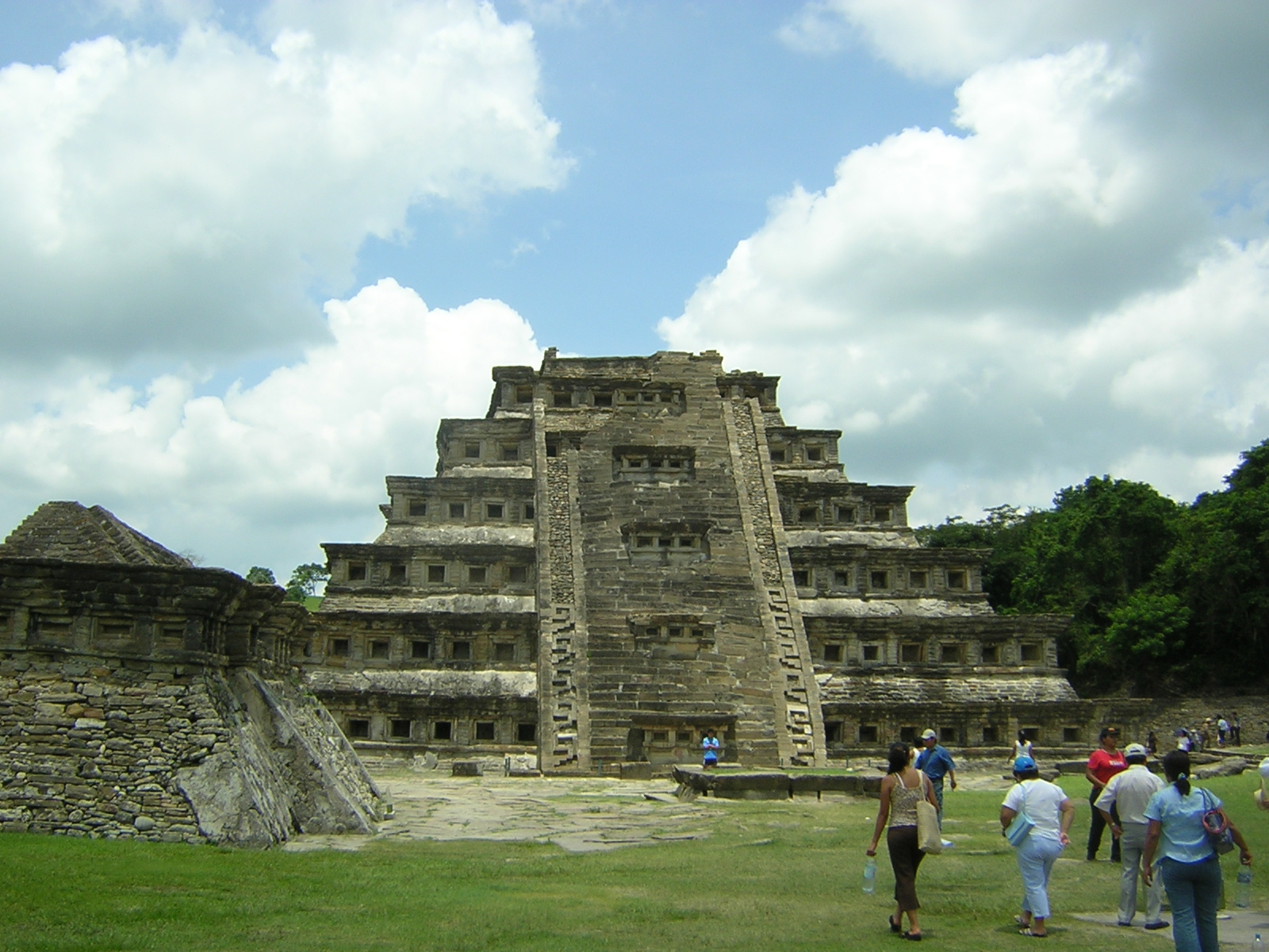 Taken by Diniz, August en:2006